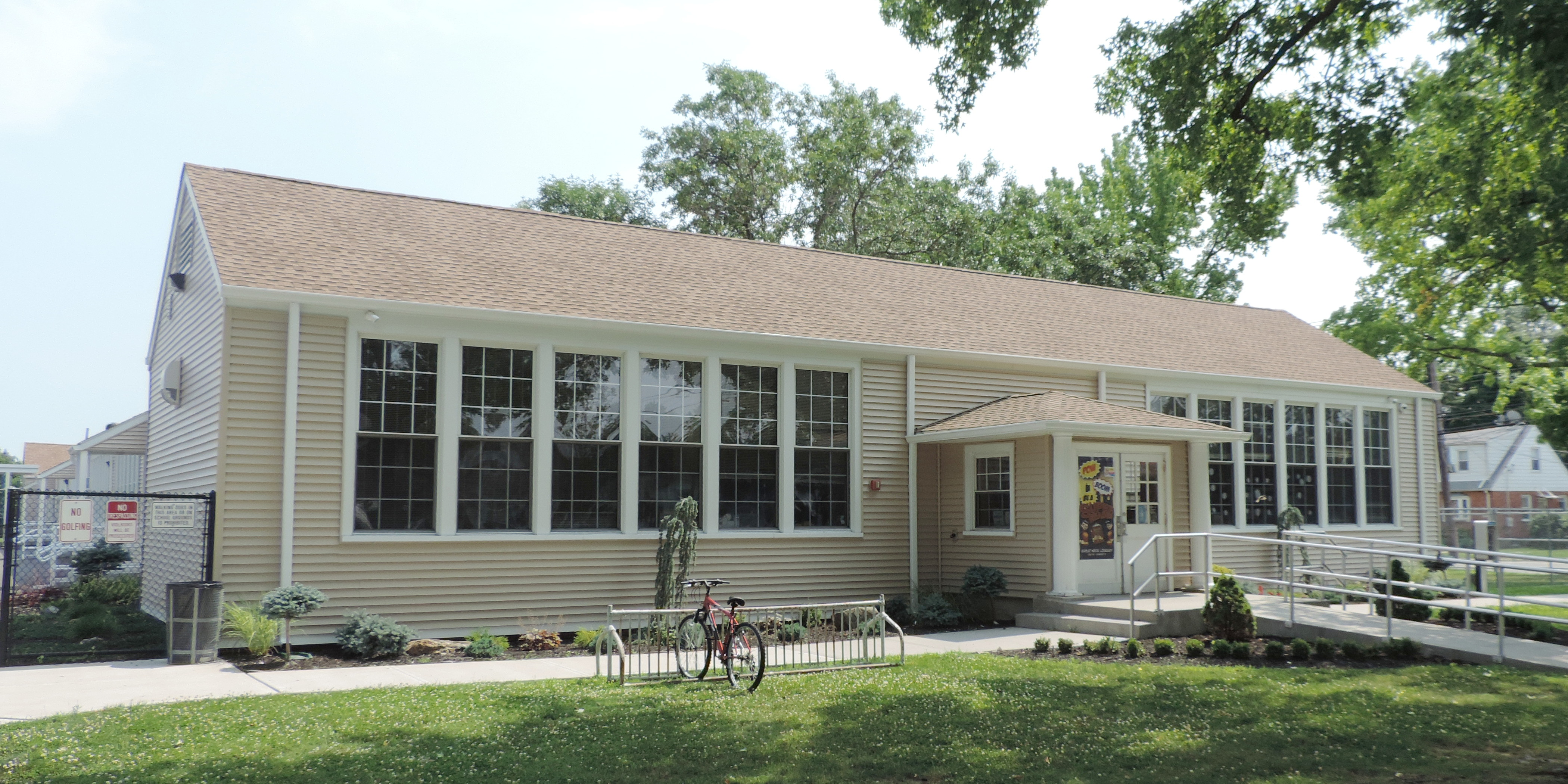 Looking south at library on mostly sunny afternoon.